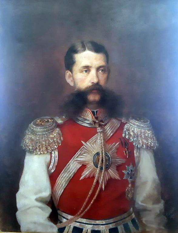 Shipov, Nikolay Nikolayevich (senior).